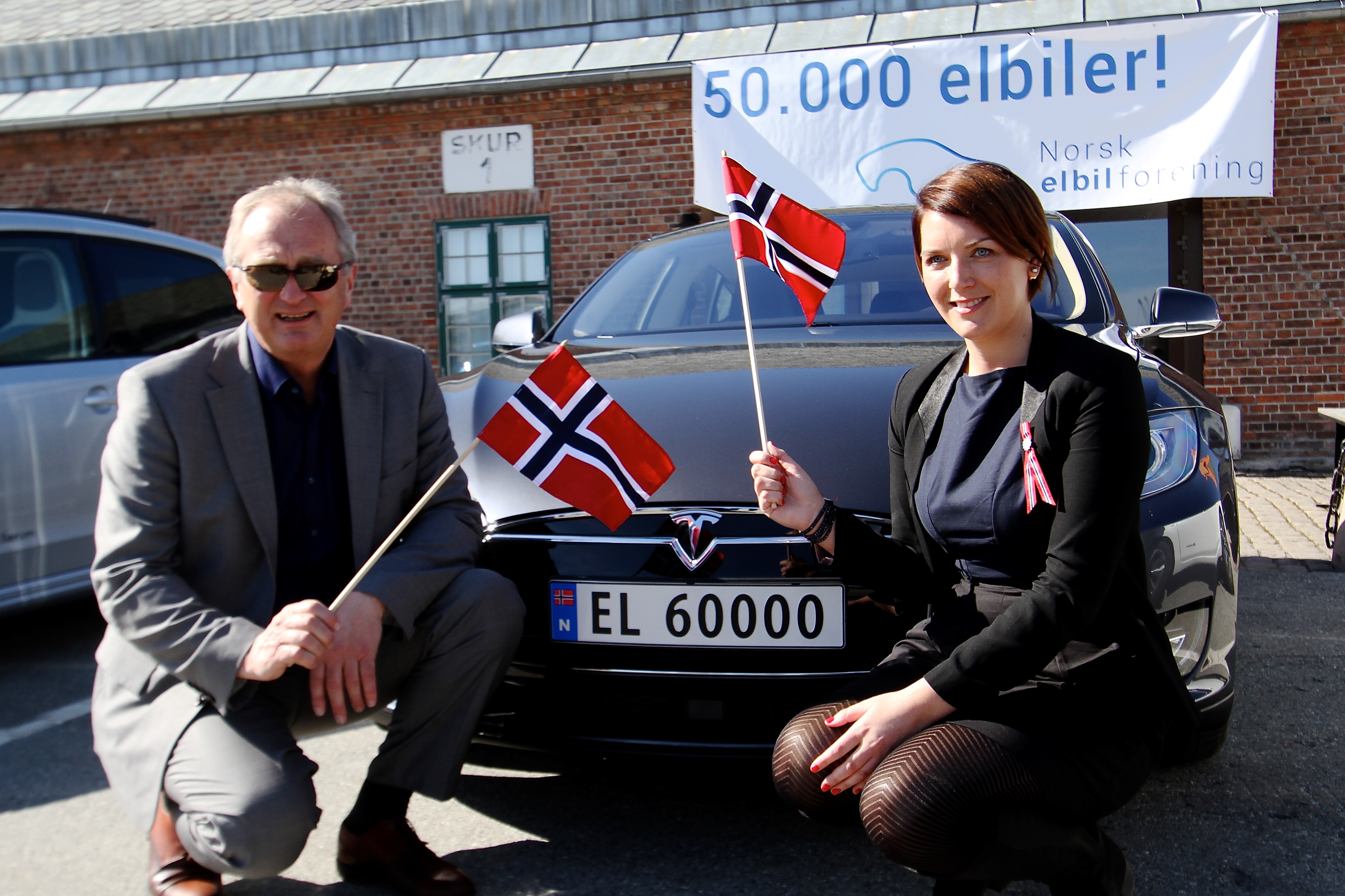 Event organized by the Norwegian Electric Vehicle Association (Norsk Elbilforening) to celebrate the milestone of 50,000 all-electric vehicles registered in Norway on April 20th, 2015. The event took place in Drammen (Port of Drammen) where more than 2/3 of new cars arrive to Norway. The electric car, a Tesla Model S, received license plate “EL 60000″ to number 50,000. All EVs have special plates beginning with EL, with a sequence that began with number “EL 10000.”